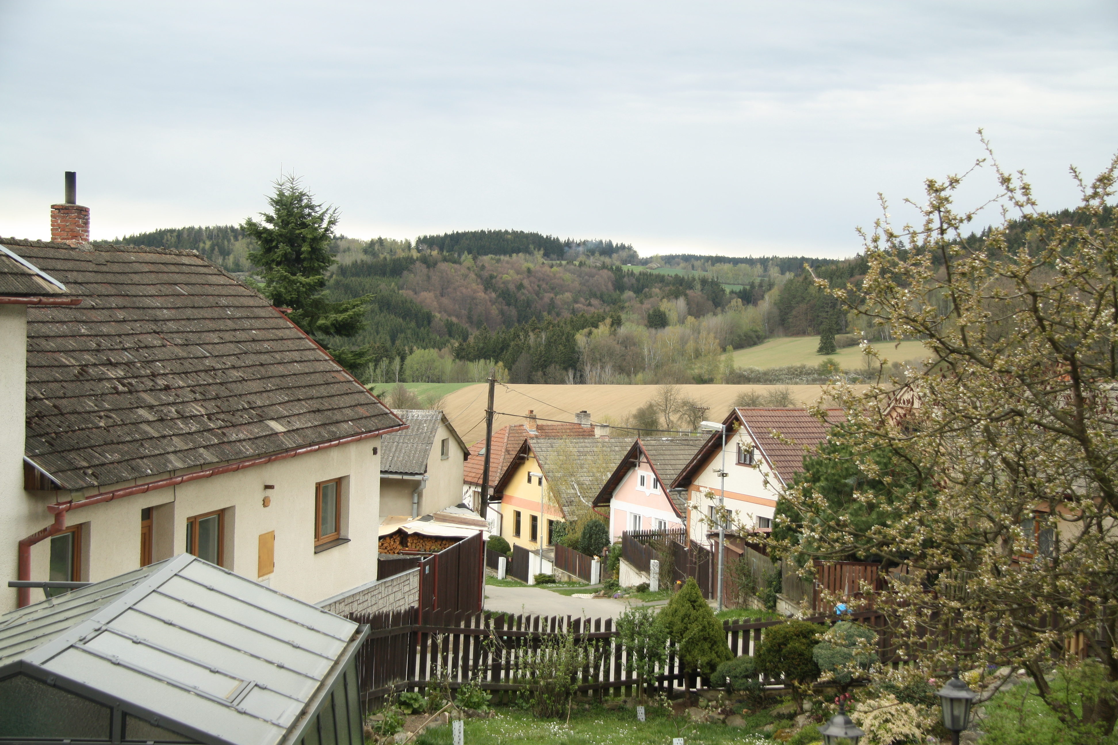 Overview of Vržanov, Kamenice, Jihlava District.